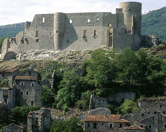 Veduta del castello e del borgo di Brienza